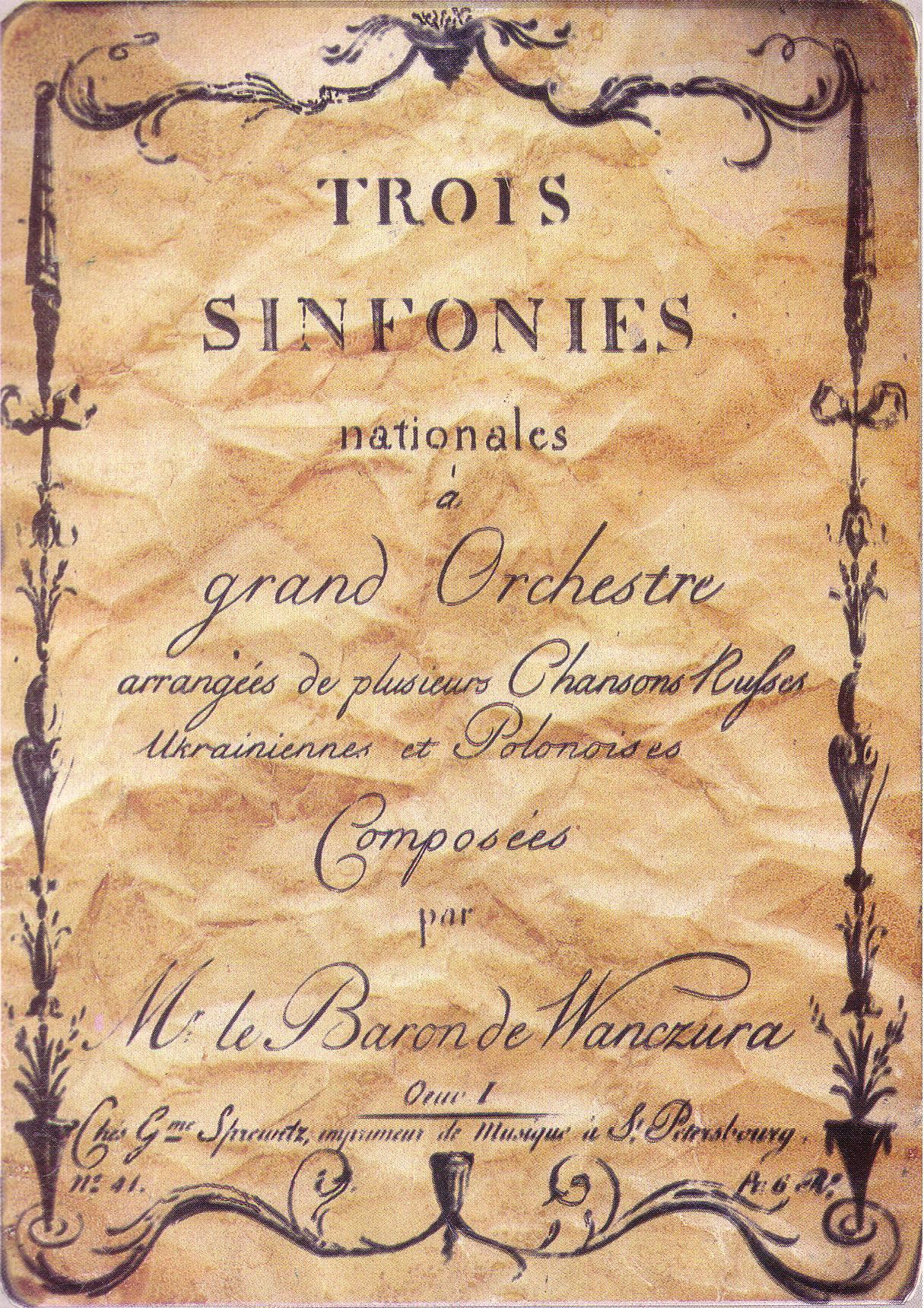 Composer Arnošt Vančura (1750–1802): Trois Sinfonies (front page)